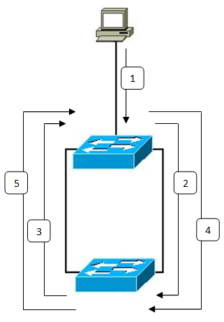 Network anomaly - broadcast storm, broadcast radiation